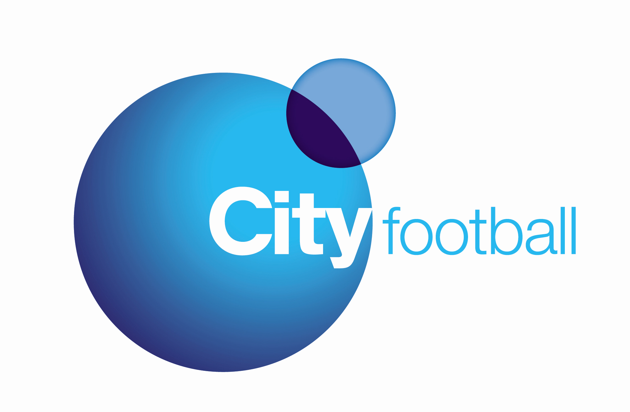 Logo of the sports holding company City Football Group (2014).